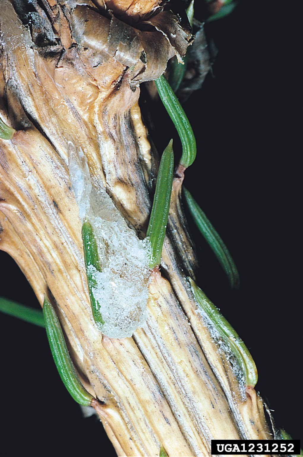 Cydia pactolana caterpillars